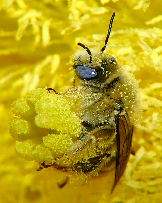 Diadasia Bee Straddles Opuntia engelmannii Cactus Flower Carpels (close-up)